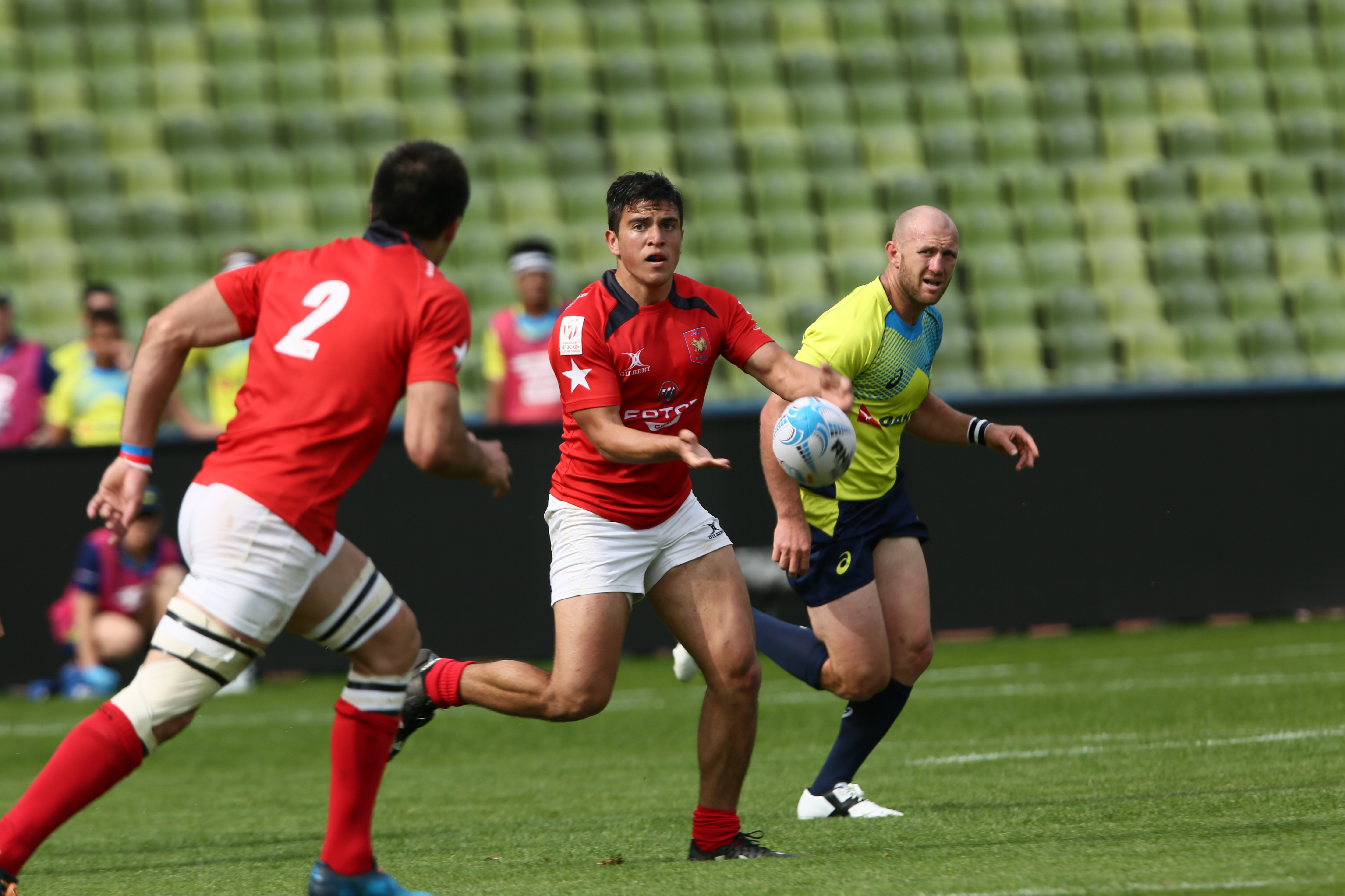 Rugby tournament "Oktoberfest 7s", Munich, 2017-09-29/30 at the Olympic stadion of Munich.